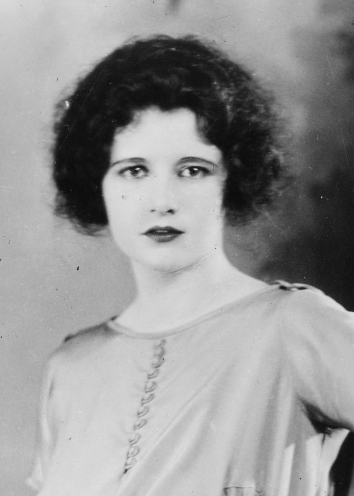 Constance Binney